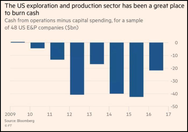 Production costs outweigh profits